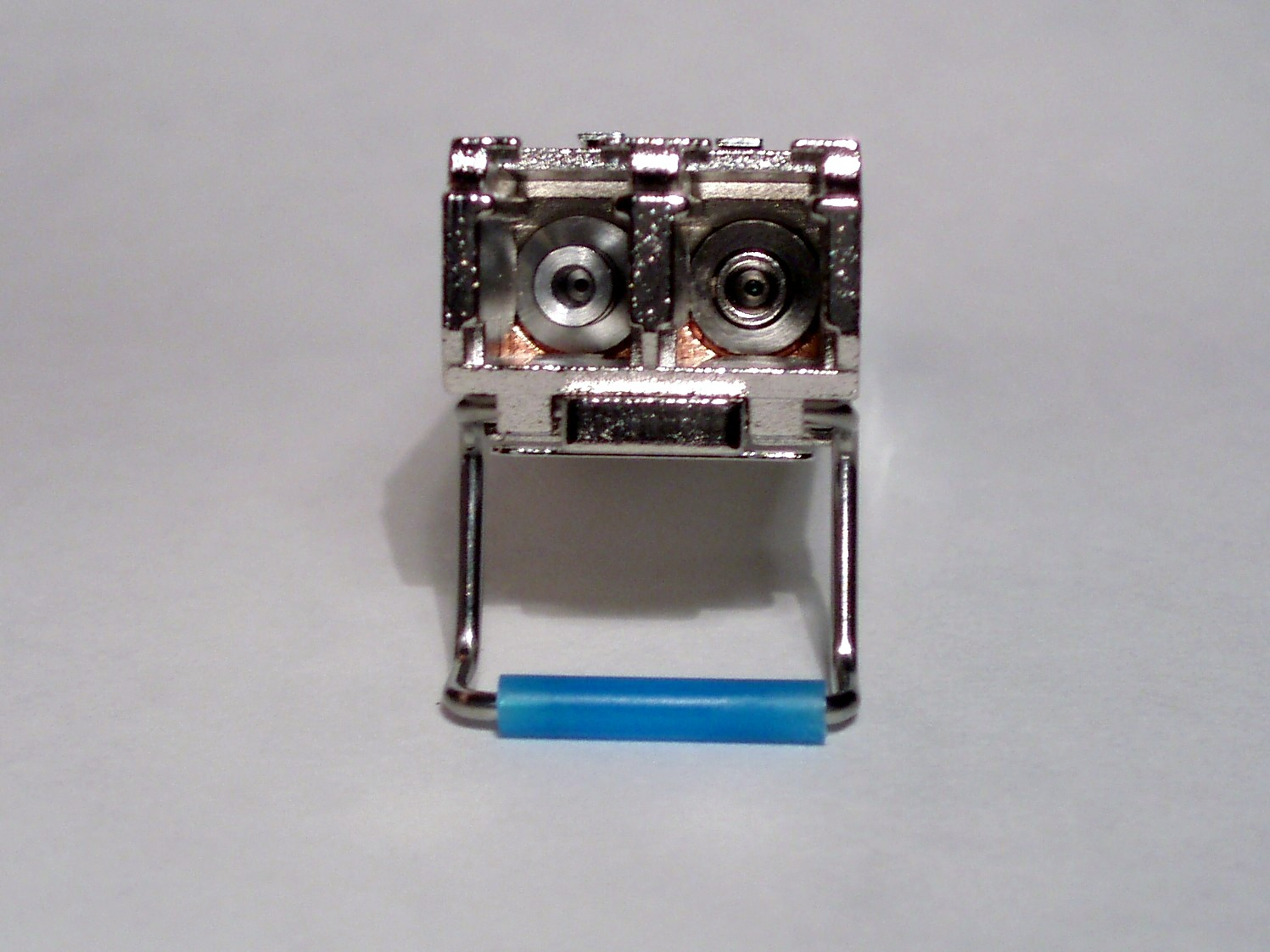 Front view of SFP module.